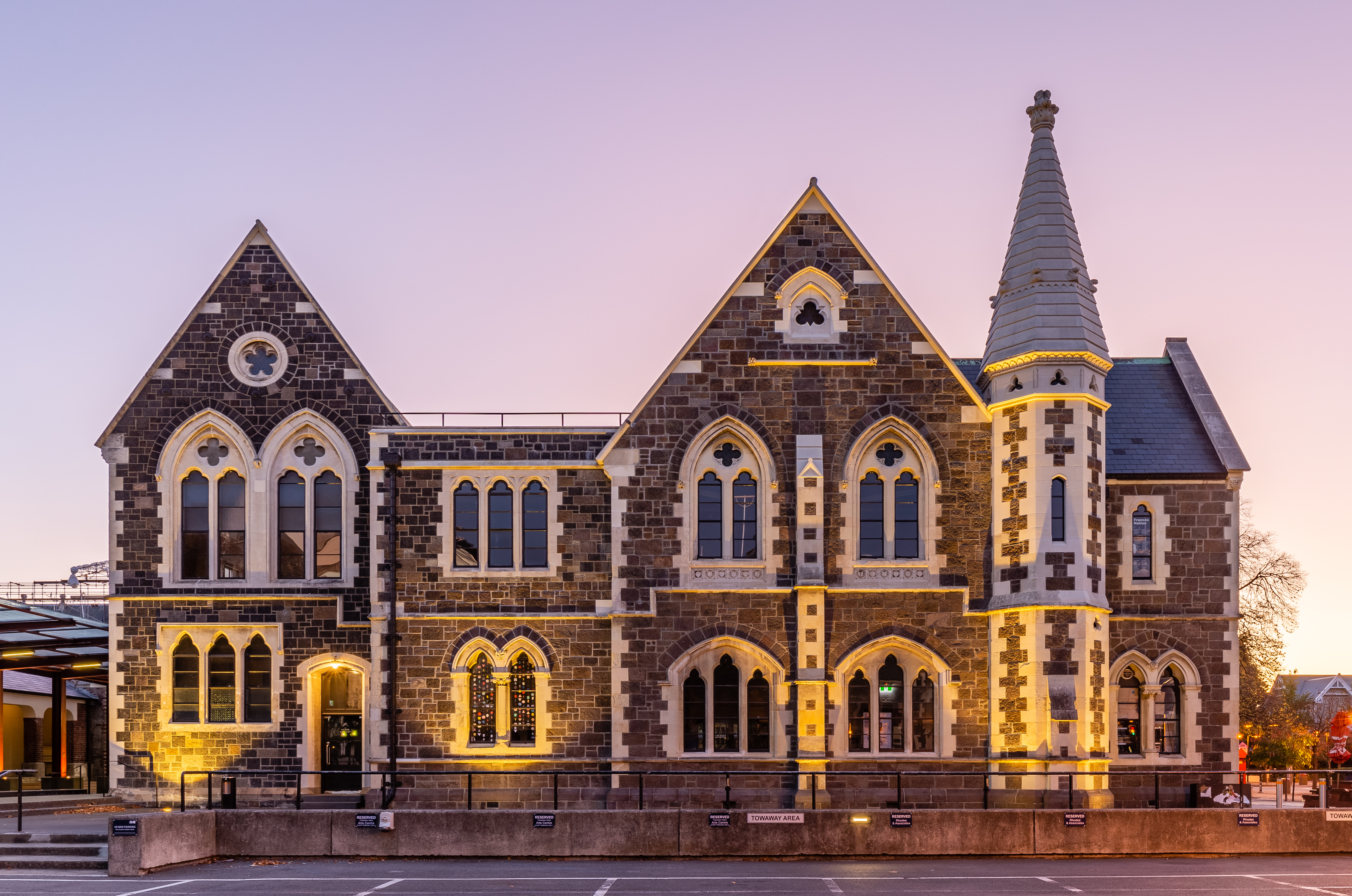 Christchurch Arts Centre, Christchurch, New Zealand